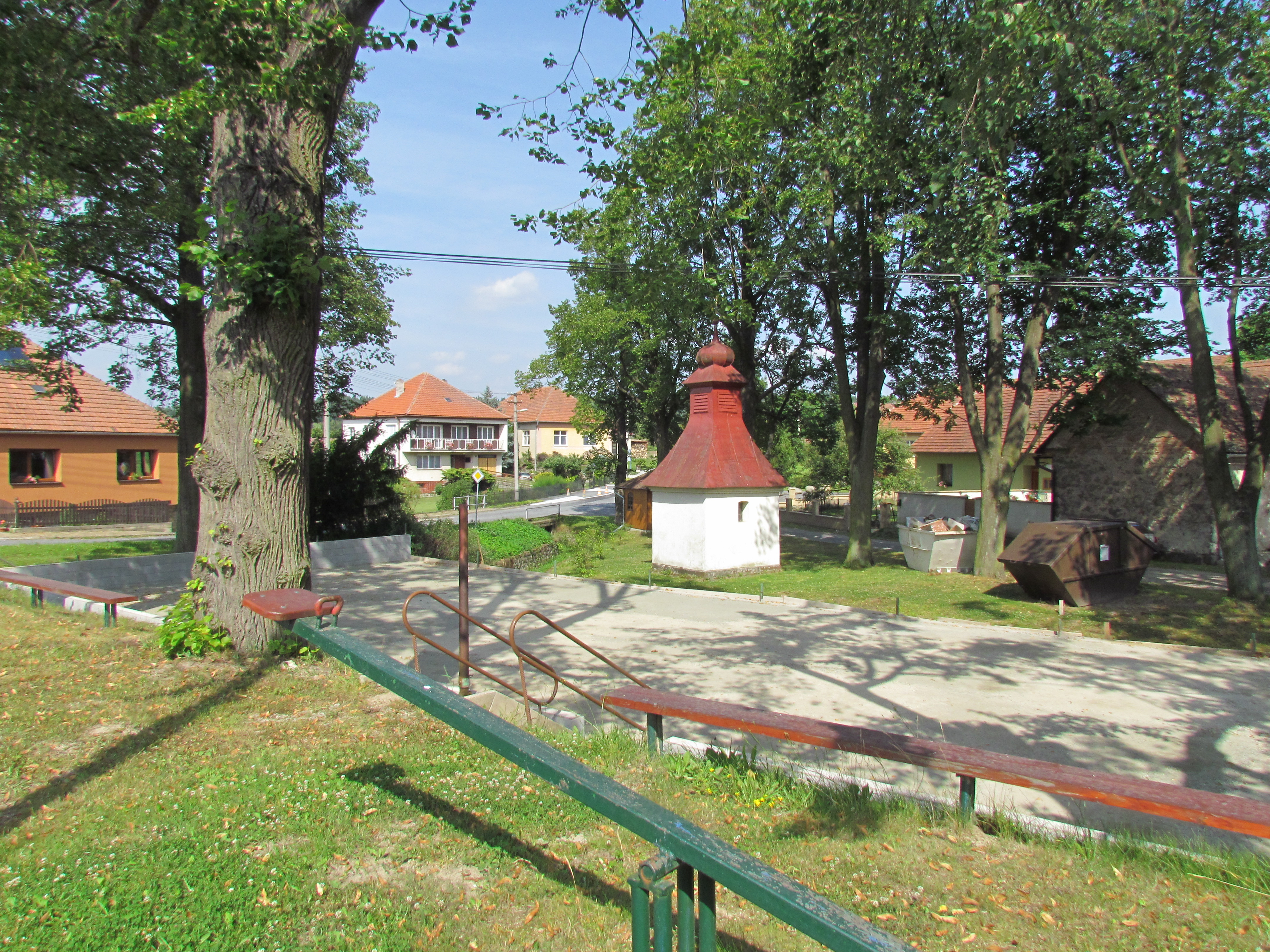 Center with chapel in Batouchovice, Třebíč District.